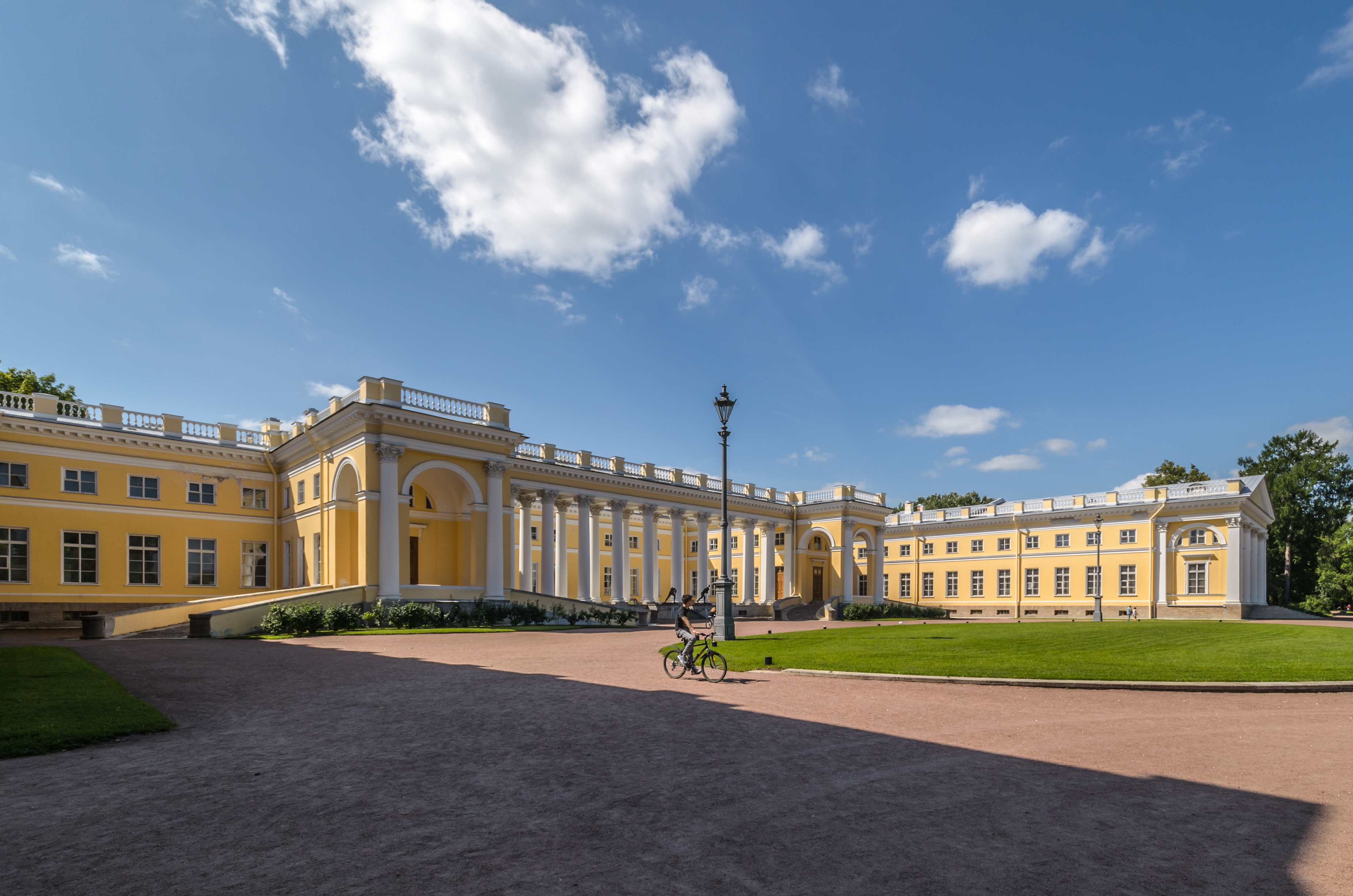 Alexandrovsky Palace in Tsarskoe Selo